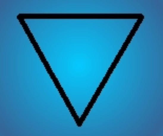 Astrological symbol of water signs. Own work. An SVG version of this file is available as File:Water signs color.svg.